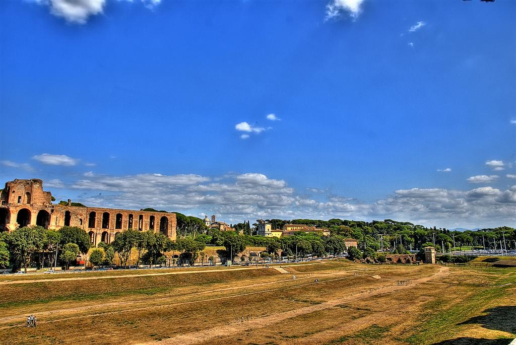 Circus Maximus south view - from Aventine hills